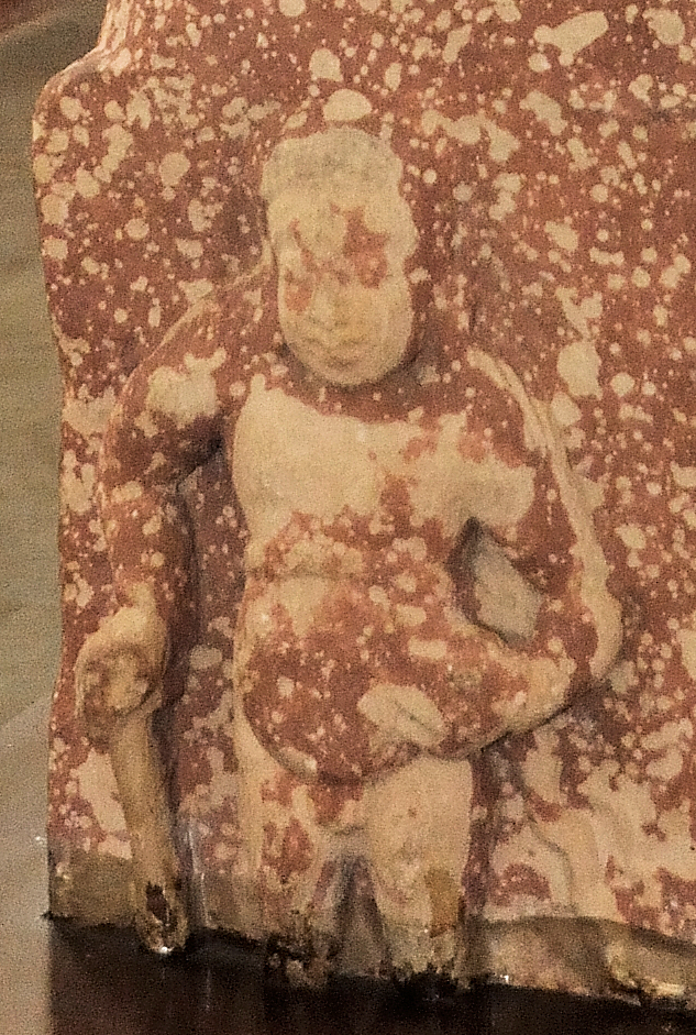 Inscribed Pillar - Recording Installation of Two Shiva Lingas by Udita Acharya in the Reign of Chandragupta Vikramaditya - 380 CE - Rangeshwar Temple - ACCN 29-1931 - Government Museum - Mathura (detail)